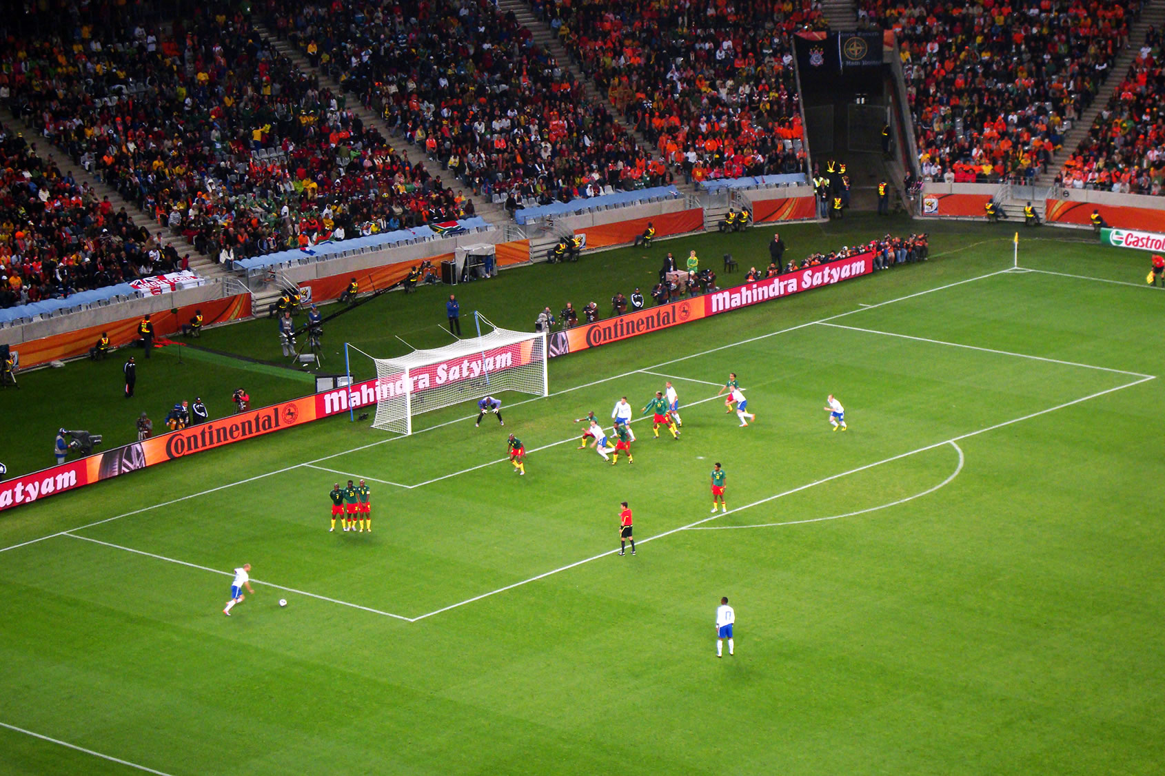 Group E encounter, Cameroon vs. Netherlands at Cape Town Stadium.